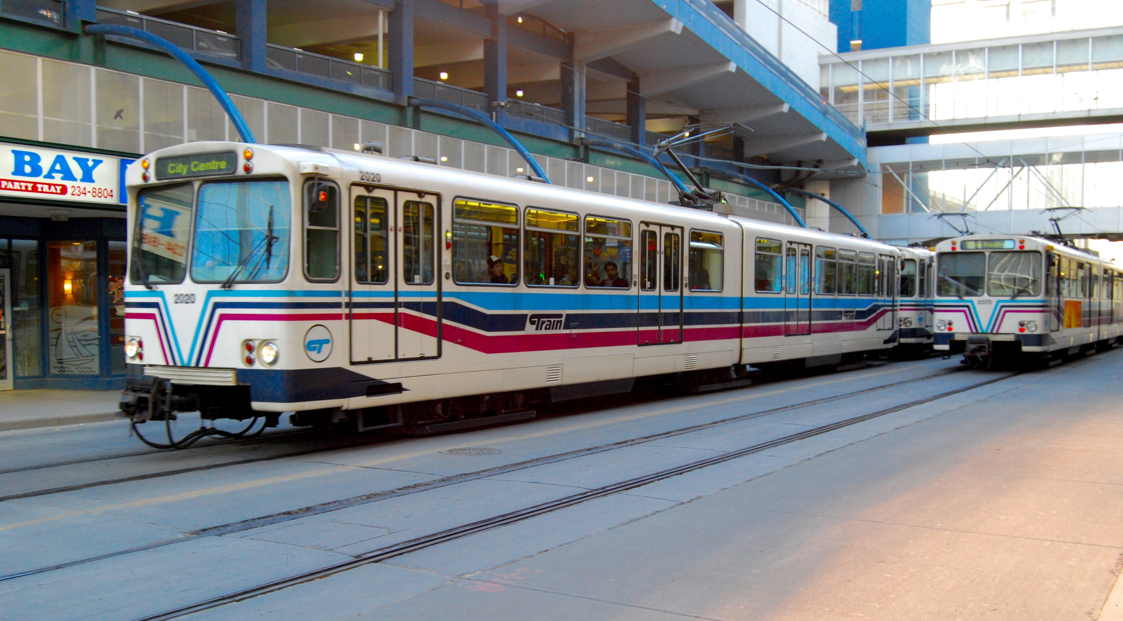 Calgary C-Train light rail trains on 7th Avenue SW between 1st Street SW and 2nd Street SW, in 2008. The train at left, led by car 2020 (a Siemens–Duewag U2), is westbound.